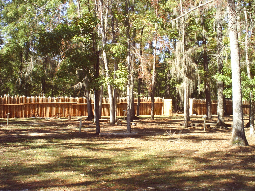 Inside Fort Mims, looking at the West wall and gate. The fort is currently being skillfully reconstructed. Source: Don W. Robbins